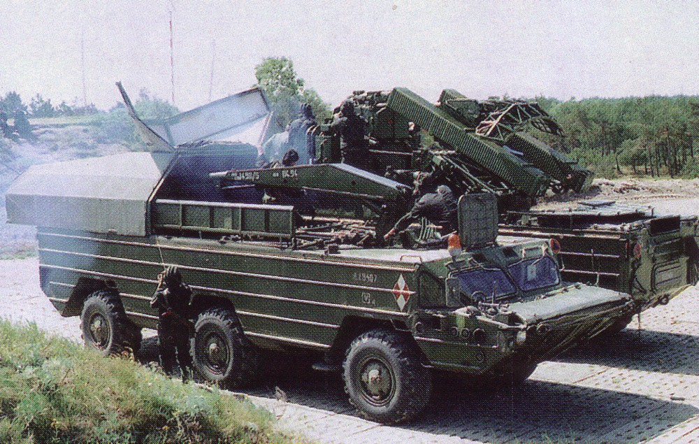 9K33 Osa